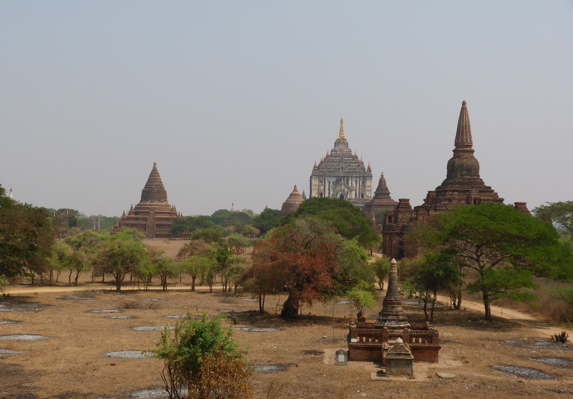 Bagan